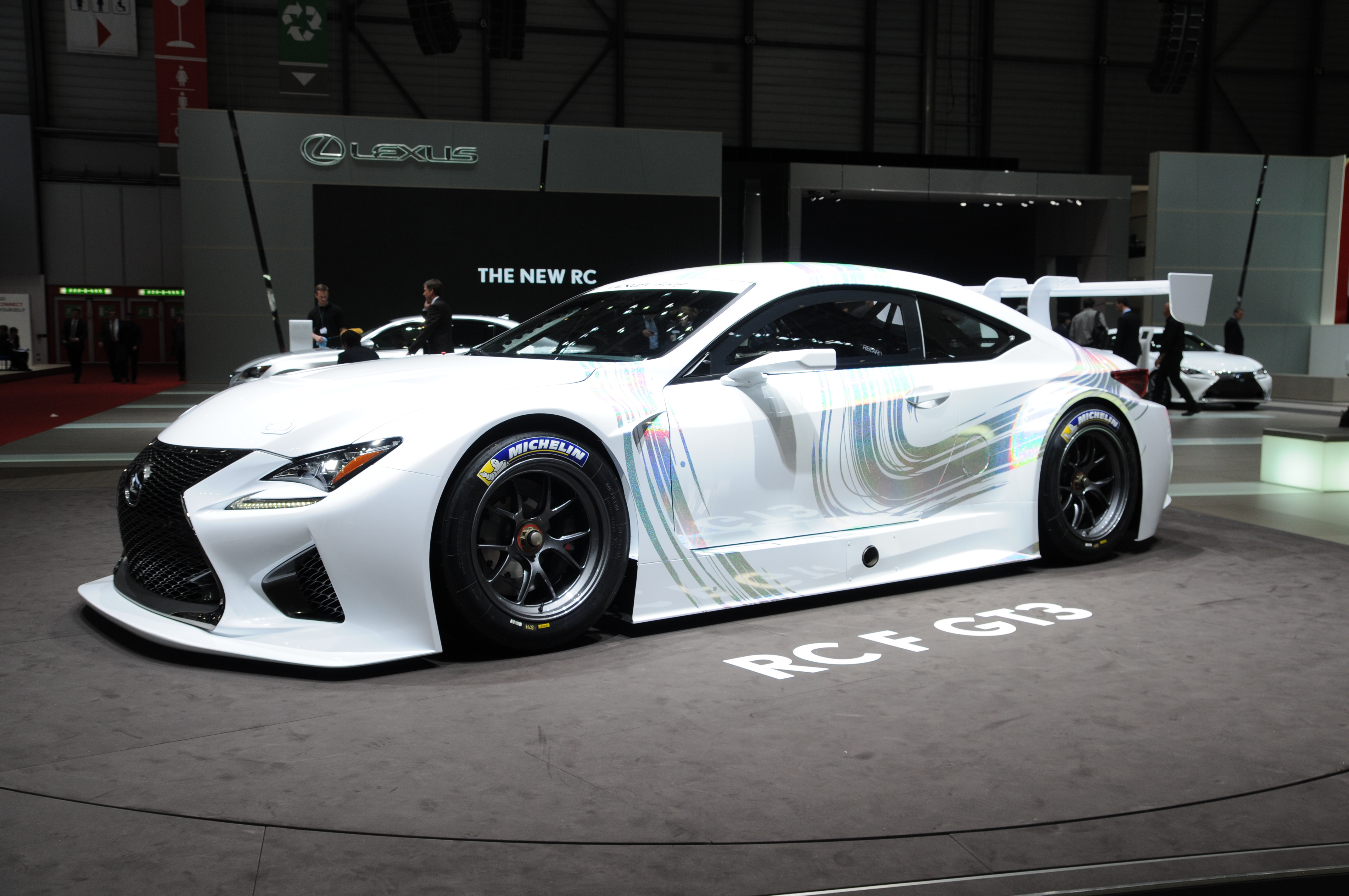 Geneva Motor Show 2014 (photo taken on the first press day)